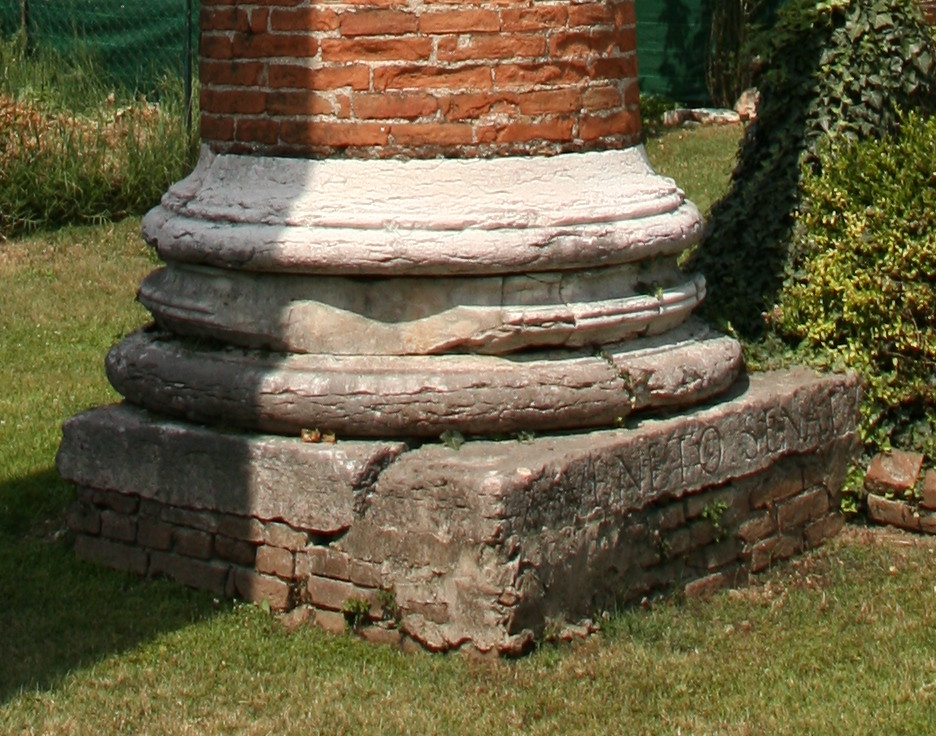 Base of a column in the row of columns of Villa Porto at Molina di Malo.